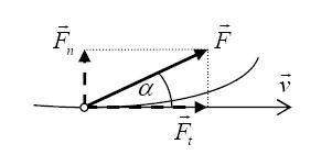 Tangential and normal component of force